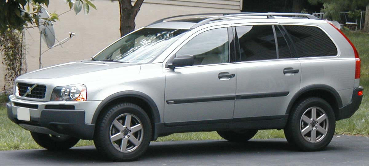 2004-2006 Volvo XC90 photographed in USA.